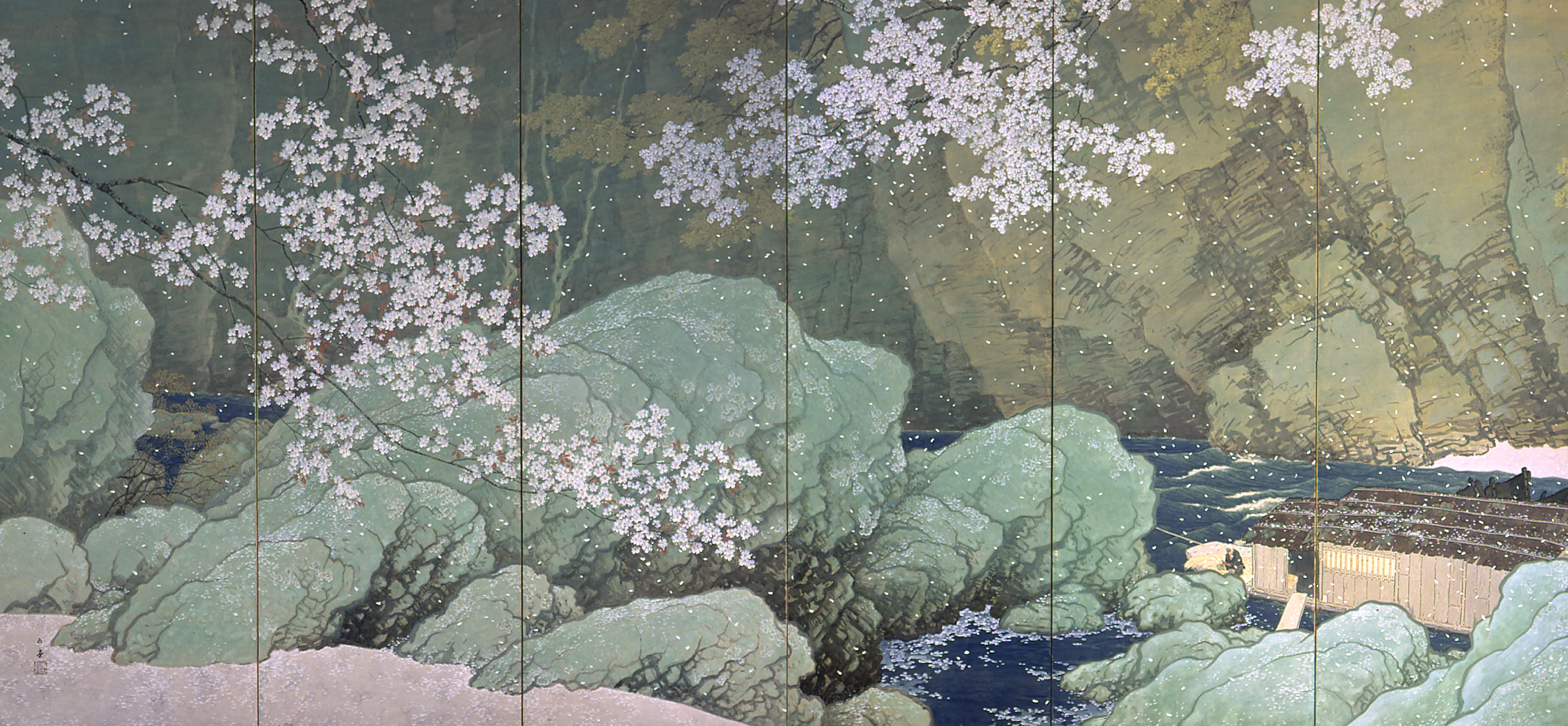 Parting Spring (left panel), by Kawai Gyokudo, National Museum of Modern Art, Tokyo, Japan, Important Cultural Properties of Japan.